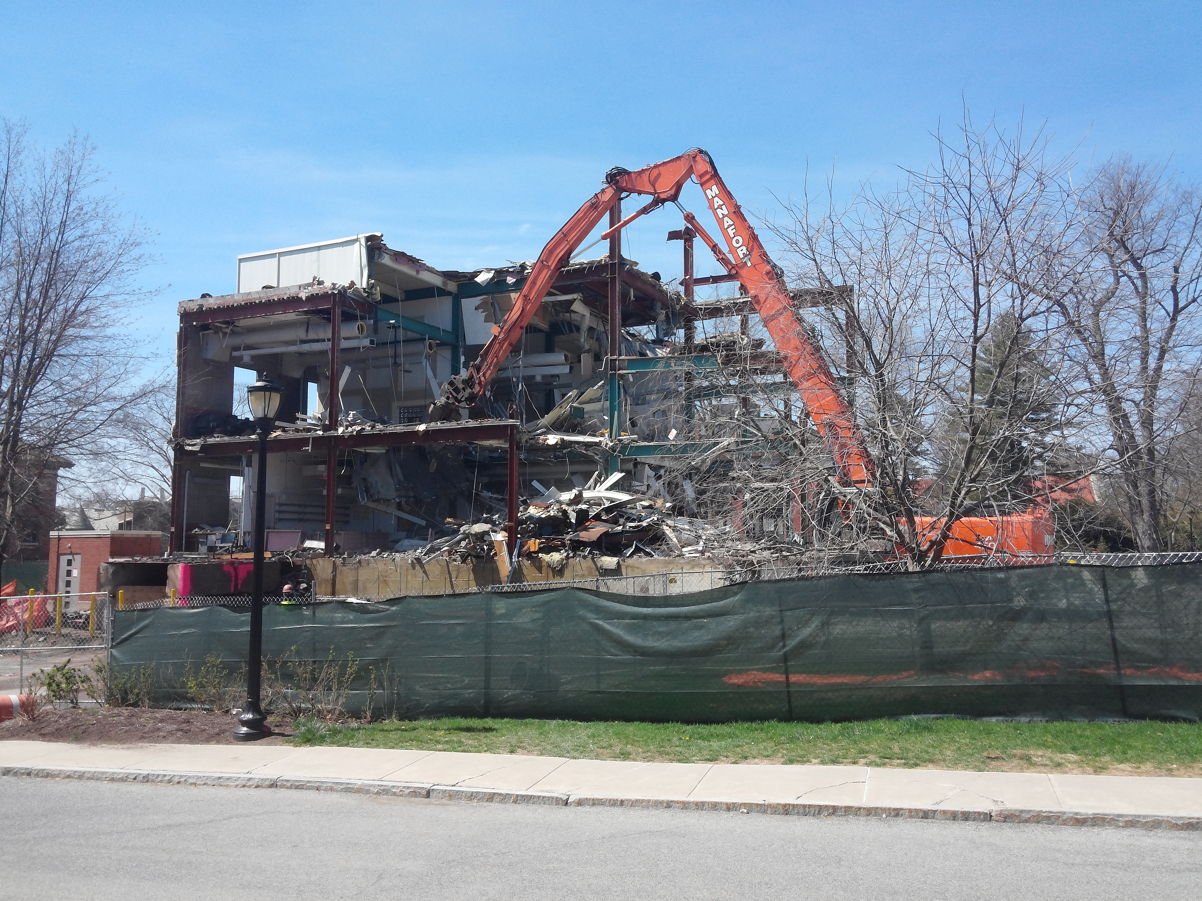 Demolition of the Seeley G. Mudd Chemistry Building on the campus of Vassar College in the town of Poughkeepsie, New York, US.